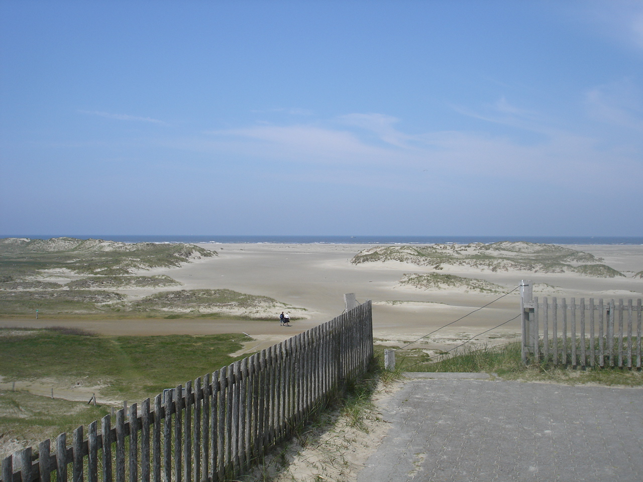 View from a dune in the eastern part of Norderney